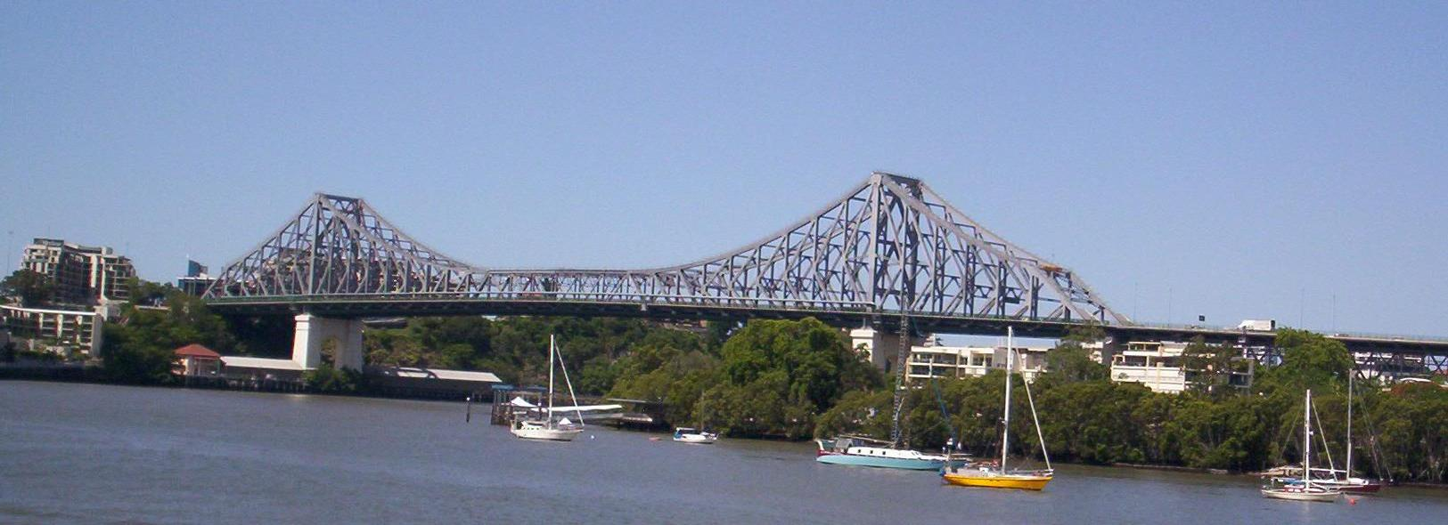 Story Bridge, Brisbane. Photo taken early afternoon from Eagle Street pier ( photo taken on Friday, 25 November, 2005 ) ( this photograph was taken by Figaro )